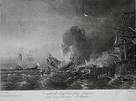 The Battle of the Cape of Roque, won by Coetlogon in 1703 (1803 print).